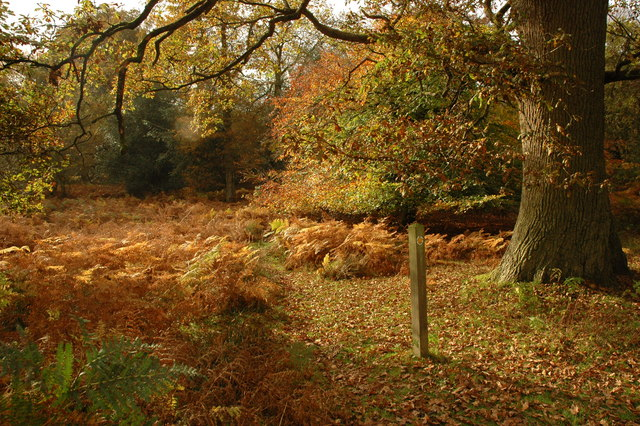 Oak tree in the Forest of Dean Oak tree in autumn colours near Speech House.